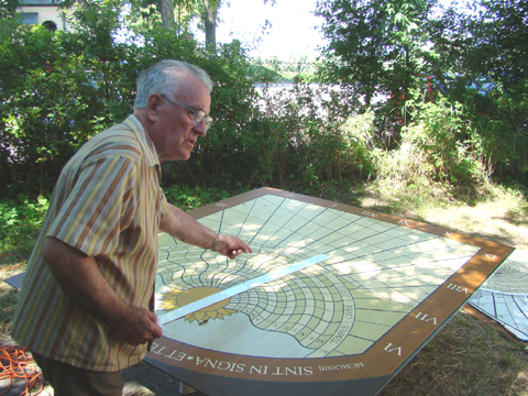 Jan Mietelski in 2008 during the double-sundial restoration in Zakliczyn